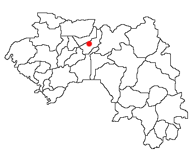 Tougué, Guinea Location Map; created with the GIMP. Made by User:Acntx.